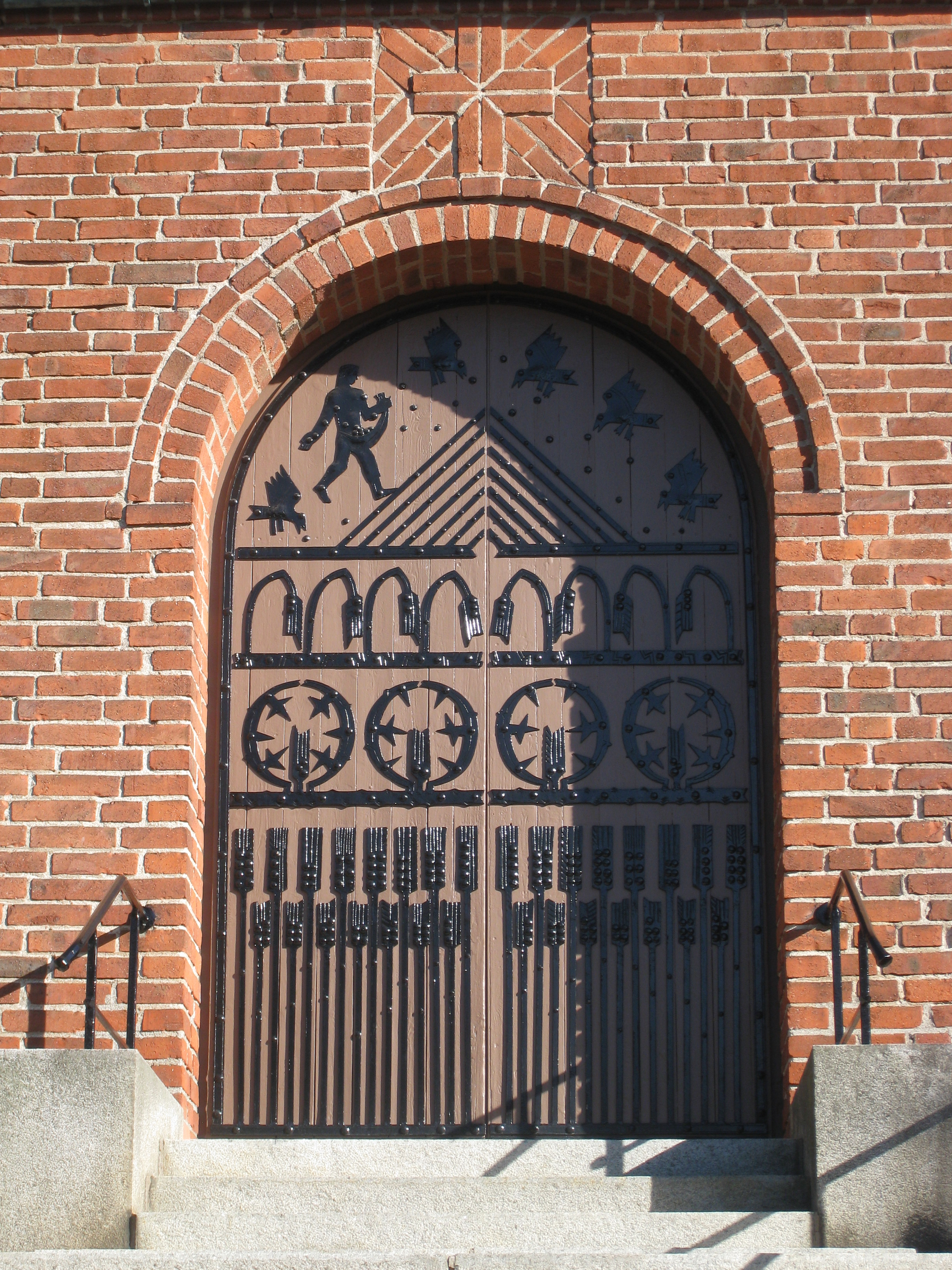 Västerledskyrkan, church in Bromma, Stockholm, Sweden